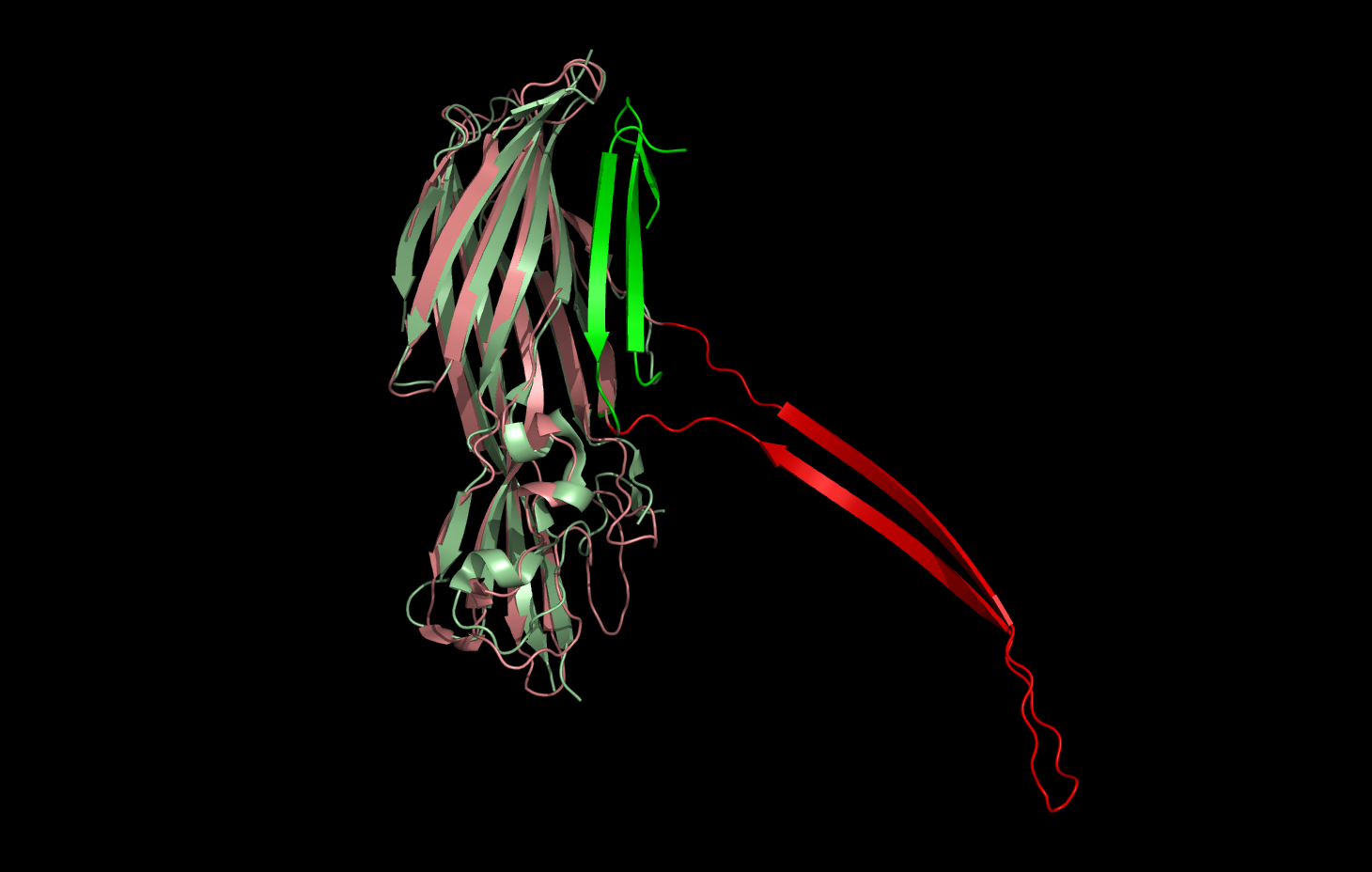 Structural Comparison of α-haemolysin (pink/red) and PVL toxins (pale green/green), revealing the large conformational change in the transition from monomeric to heptameric pore state. Created by use PDB files 7AHL and 1T5R, using the PyMol program. Bassophile 15:45, 10 January 2007 (UTC)